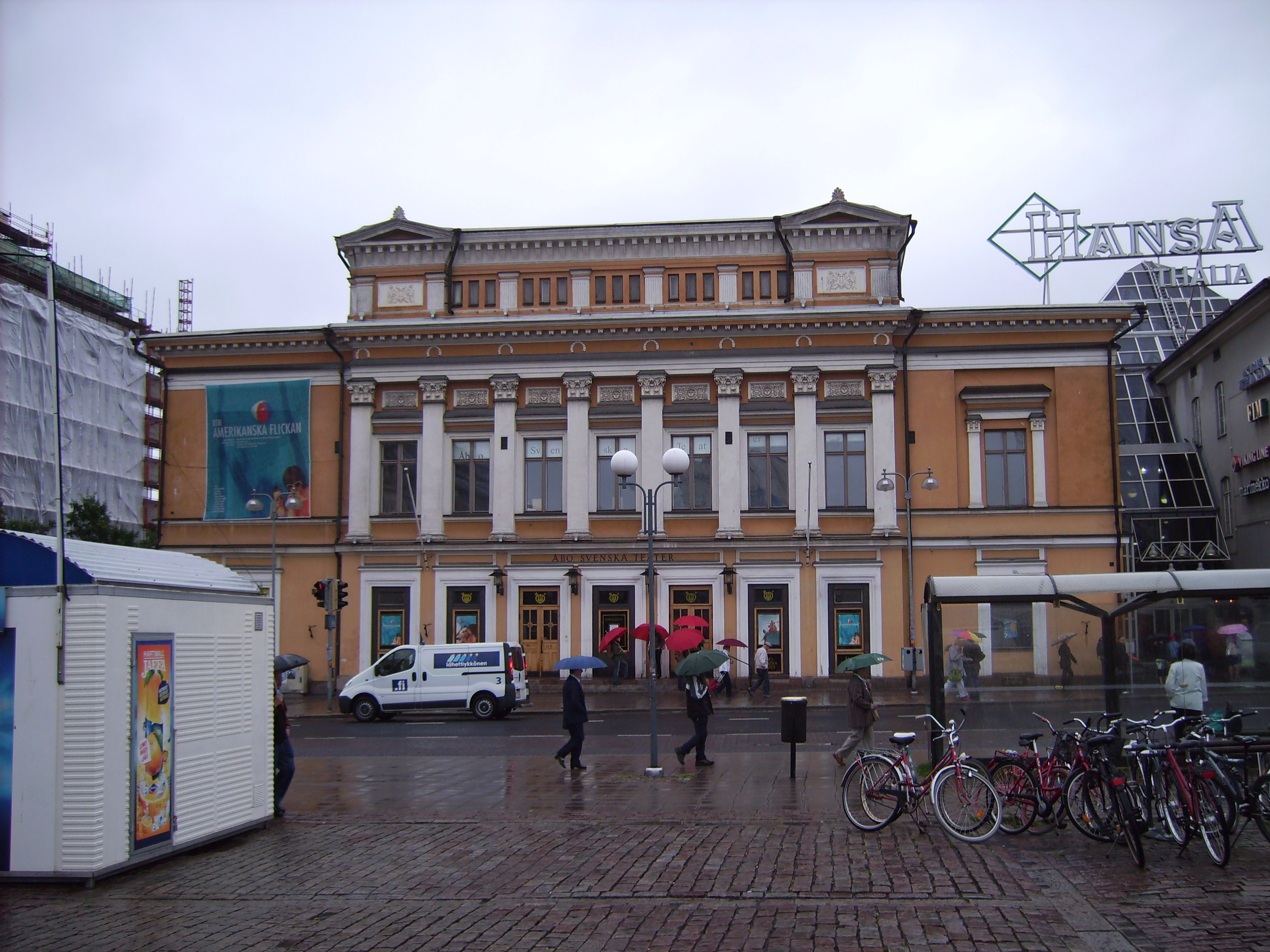 Svenska teatern vid Salutorget i Åbo. (The Swedish theatre in Åbo, Finland.)